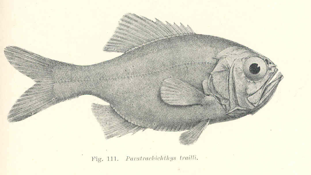 Paratrachichthys trailli Subject: Bericyformes, Paratrachichthys Tag: Fish